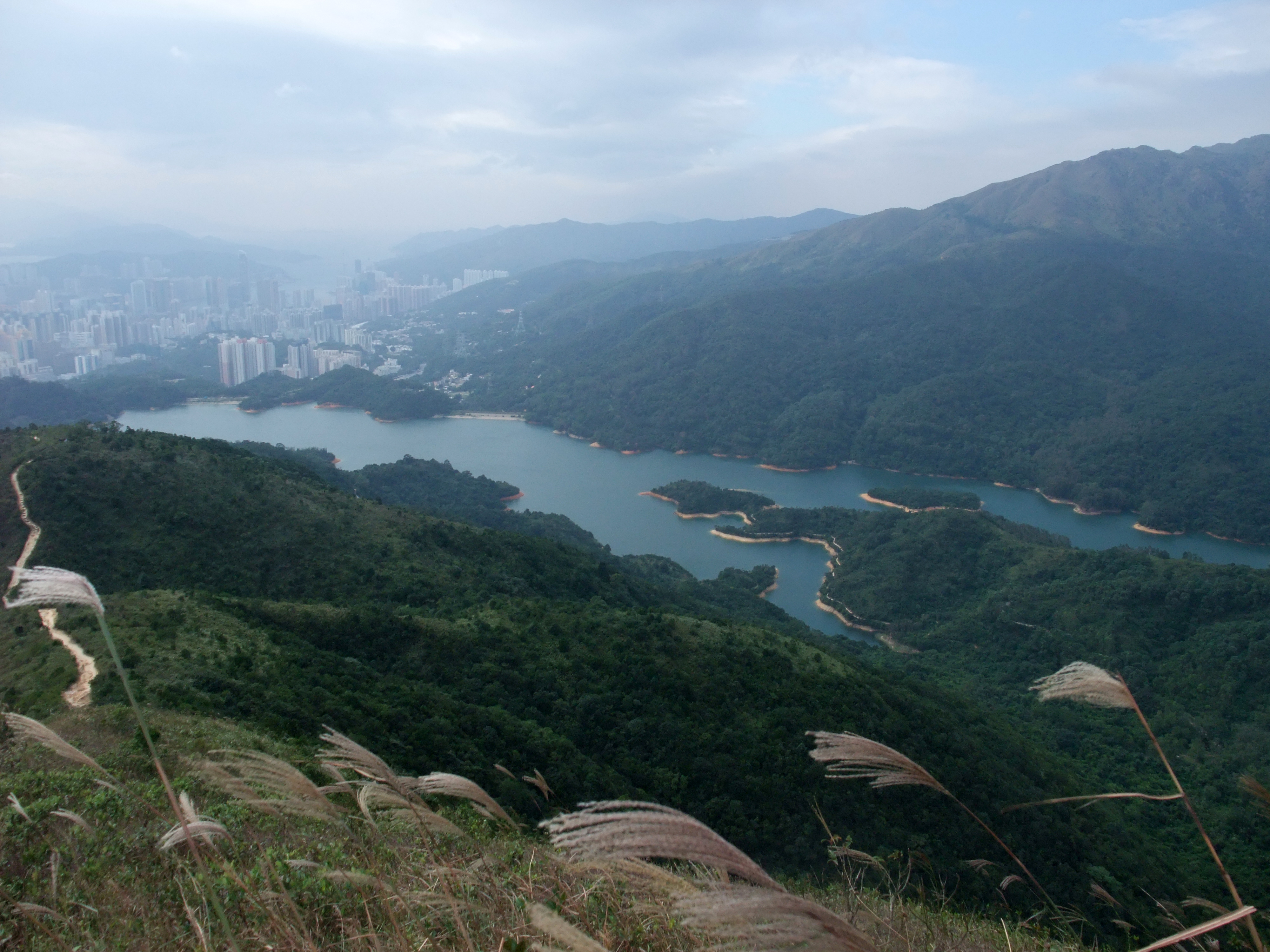 Photo of Shing Mun Reservoir